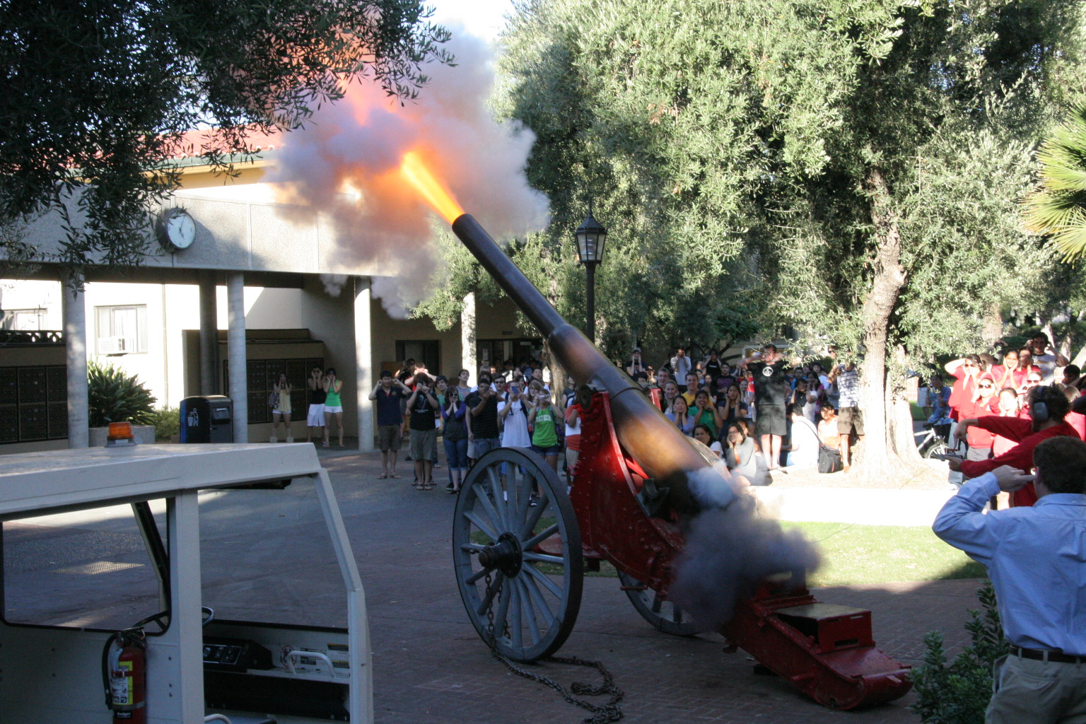 Fleming Cannon being fired during the Caltech End of Rotation party on October 2, 2011.